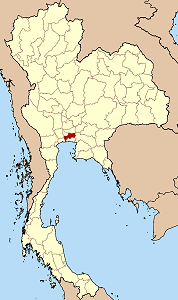 Map of Thailand highlighting Bangkok province